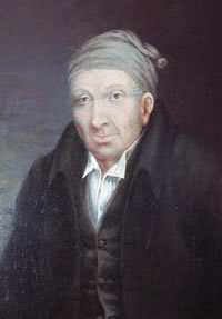 Twm o'r Nant (1739-1810)